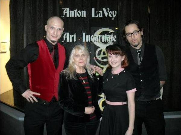 Diane LaVey (alternate name Diane Hagerty-Hall) & Stanton LaVey at “Anton LaVey – Art Incarnate" auction in Glendale California on February 14, 2009.